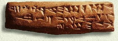 Ugaritic alphabet on clay tablet, image flipped showing right-to-left. One of the earliest alphabet listings in history. Close to the ancient Hebrew and Phoenician alphabets, with a change between the letters L and M, and using a sign for the L usually transcribed as a heavy D or as a TH heard as in the English word: 'This'.